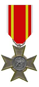 War Merit Cross Grandduchy of Baden First World War.